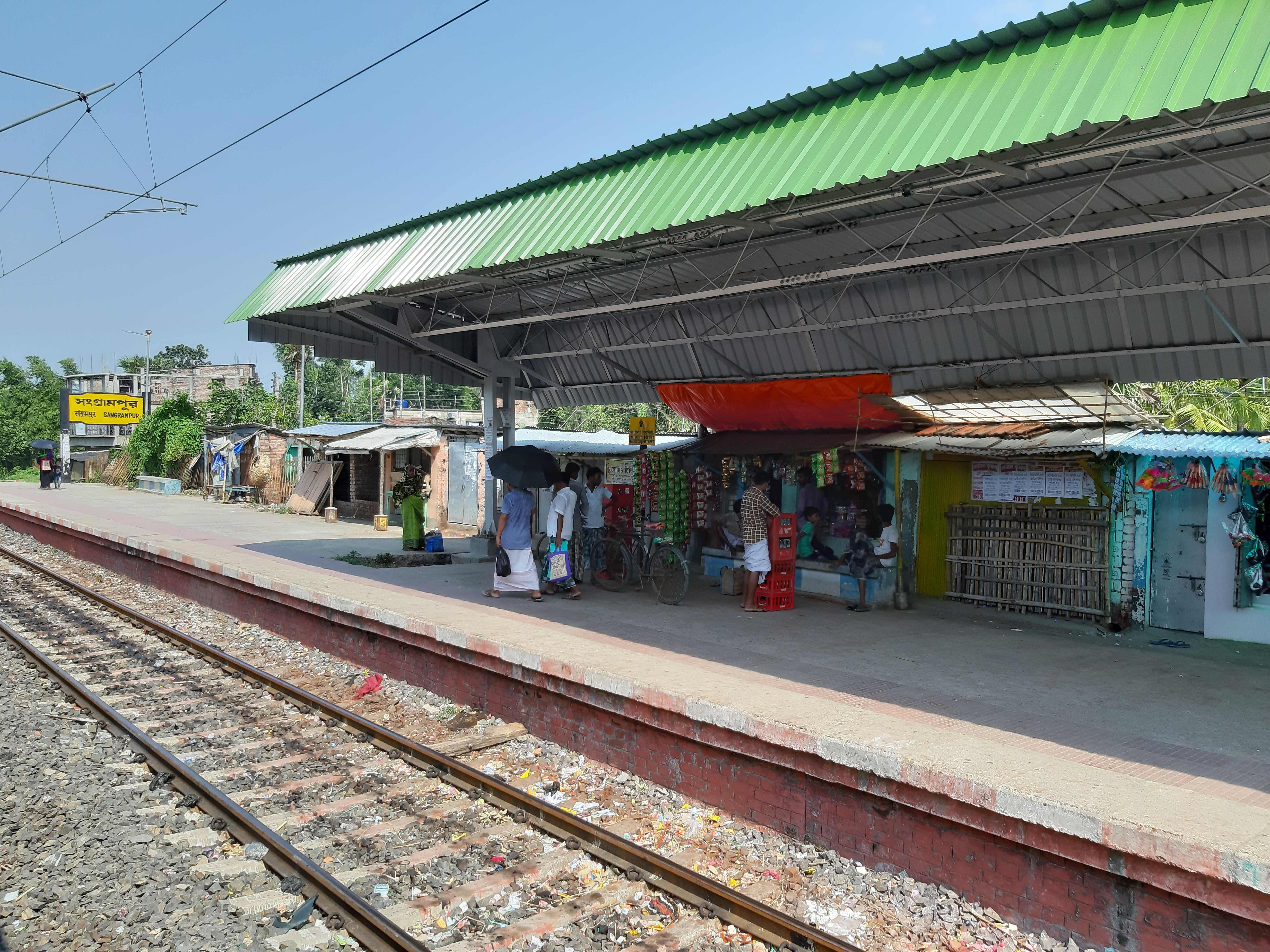 Baruipur to Diamond Harbour Railway